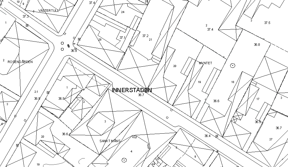 Example of modern large scale base map over Västergatan in the city of Lund, Sweden